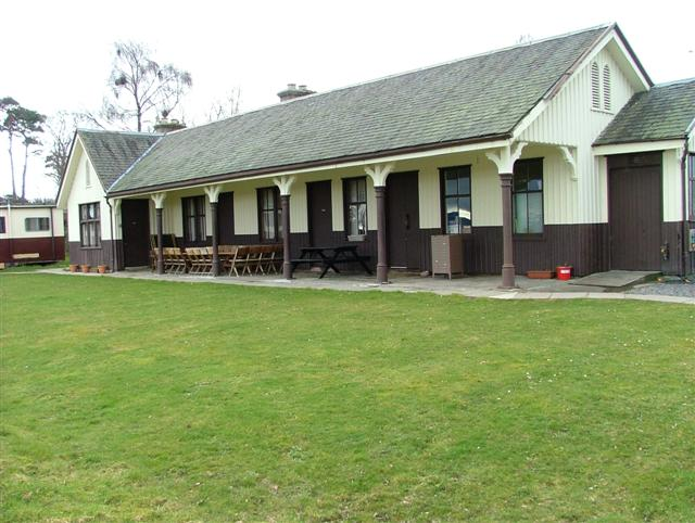 Redcastle Old Railway Station Now occupied by Nansen Highland, a charity providing day and residential training for young adults with learning disabilities.